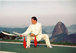 Chen Xiao Wang in Rio